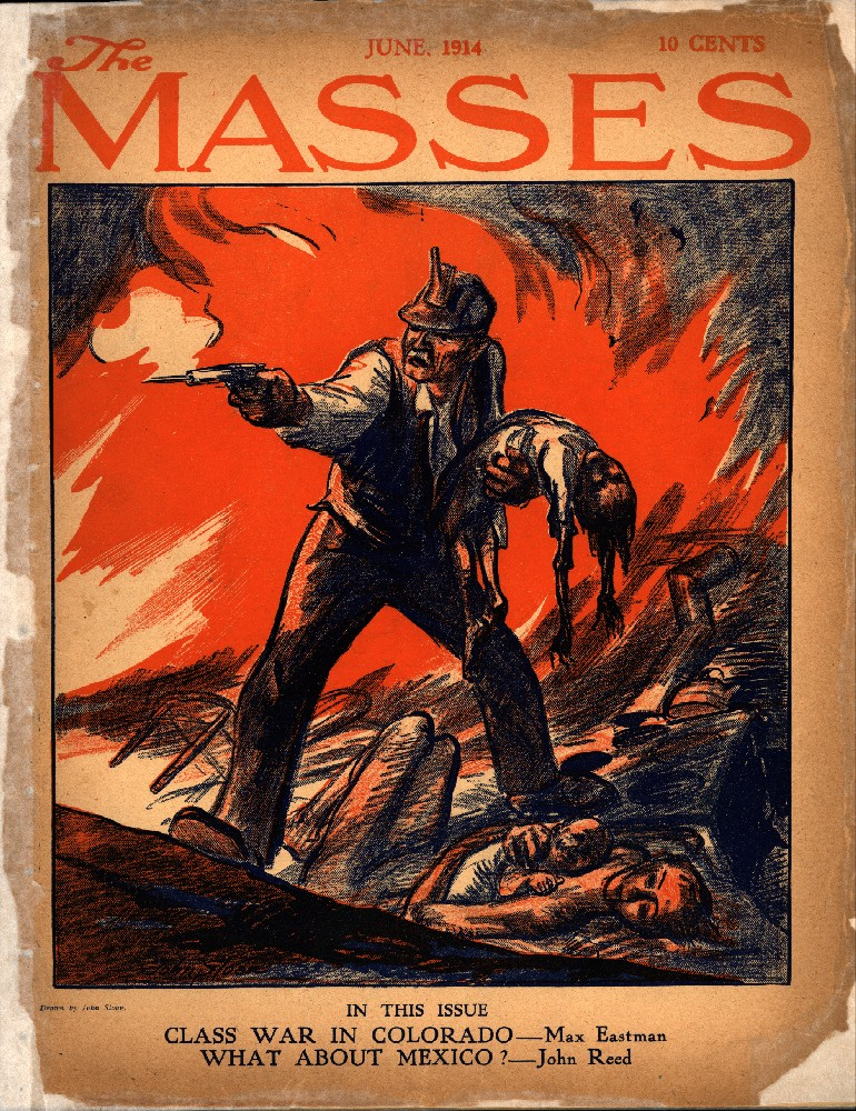 Cover of the June, 1914 issue of The Masses by John French Sloan, depicting the Ludlow Massacre.